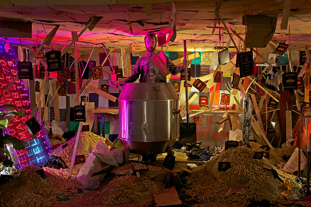 Museum of Americans in China, Site-Specific Installation and Performance, Guangdong Times Museum, Guangzhou, China, 2011